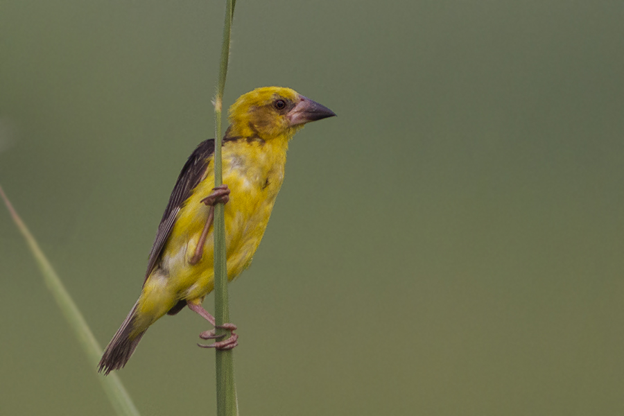 The rarest and vulnerable amongst all weavers, Finn's Weaver had been photographed from Baur Reservoir, Uttarand, India during the bird photography trip of GoingWild on 05.10.2014.